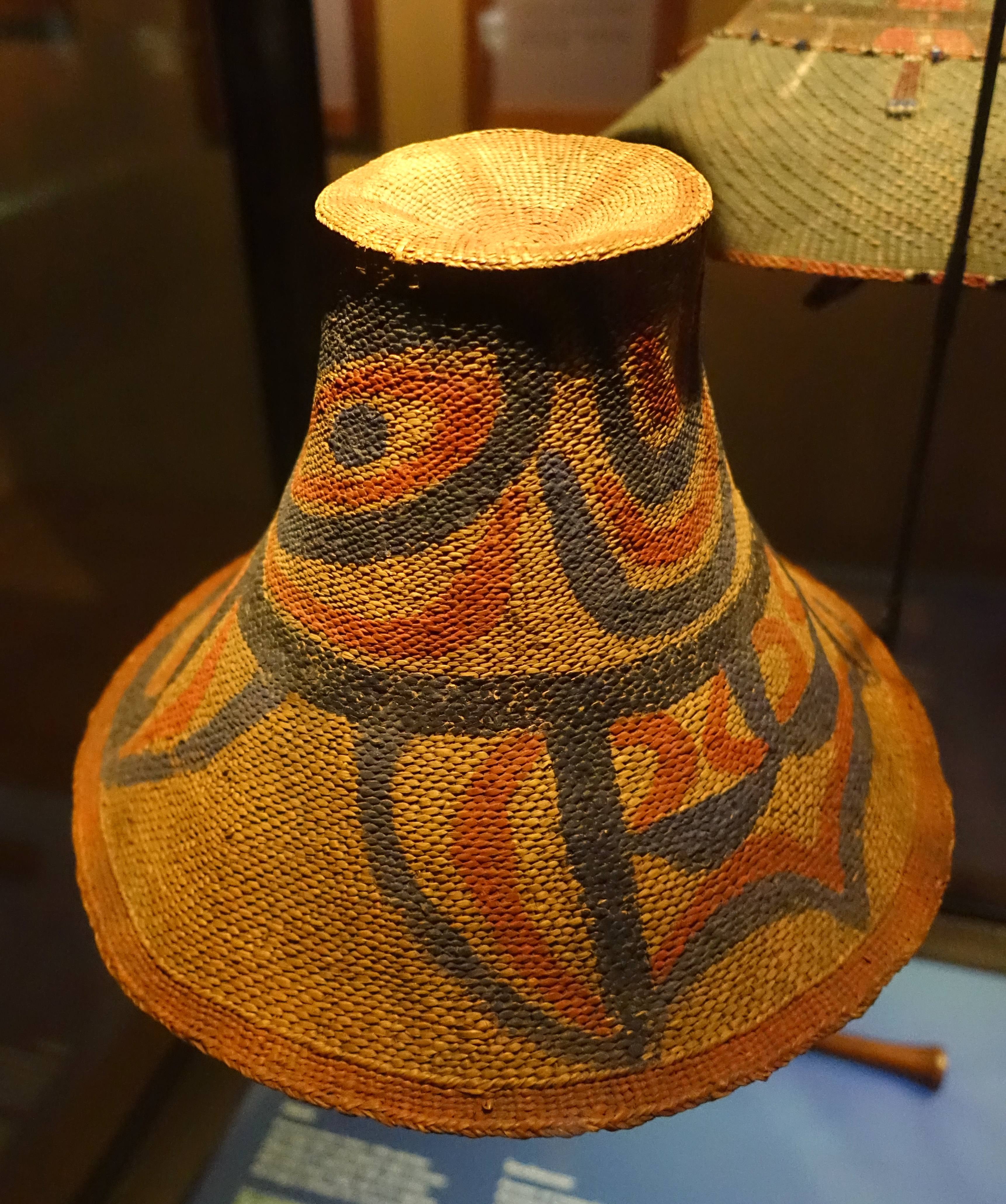 Exhibit in the Etnografiska museet, Stockholm, Sweden. This work is old enough so that it is in the public domain. This is a photo of an artwork at the Museum of Ethnography in Sweden with the identifier: 1904.19.0186